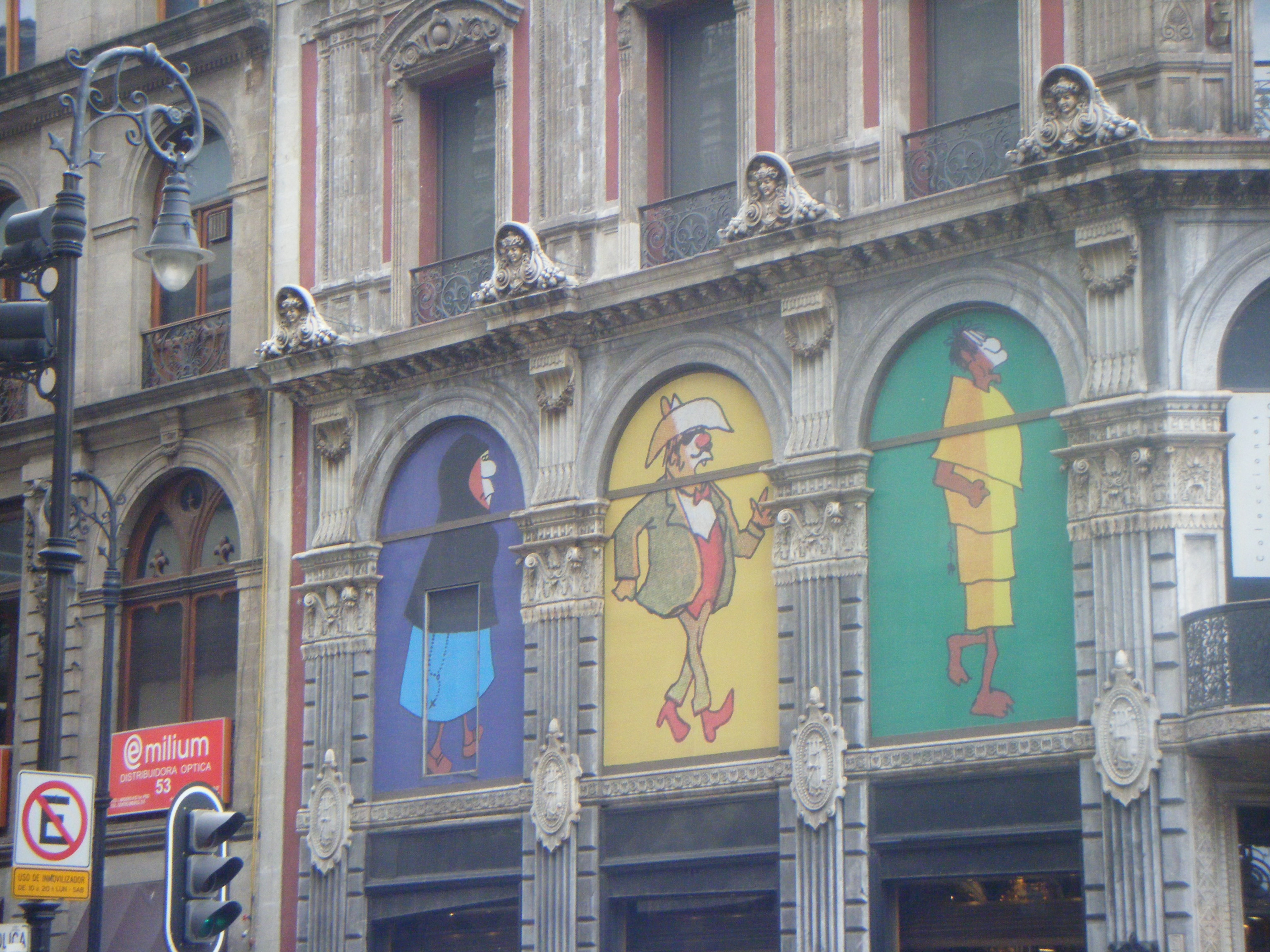 Rius characters. Museo del Estanquillo, Mexico City.